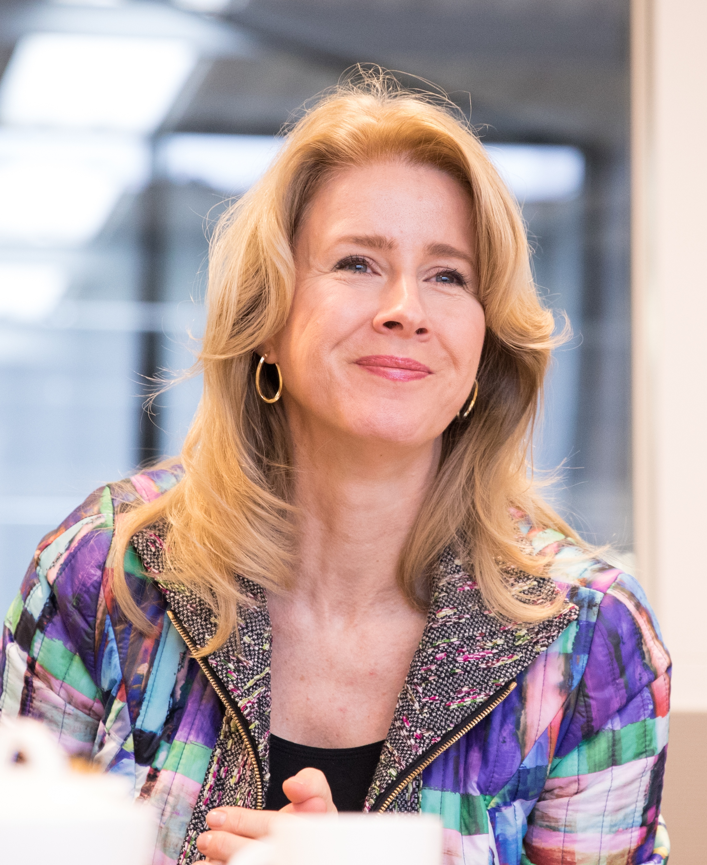 Mona Keijzer op werkbezoek in Rijssen (Overijssel, Nederland) in november 2017